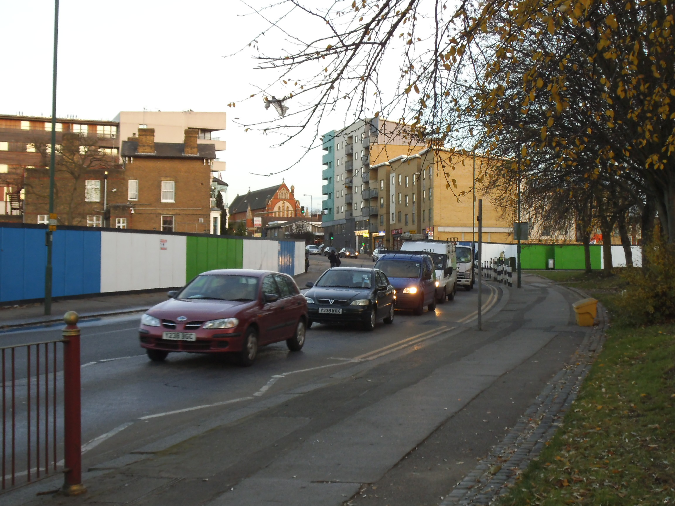 Hillside, Stonebridge, London NW10